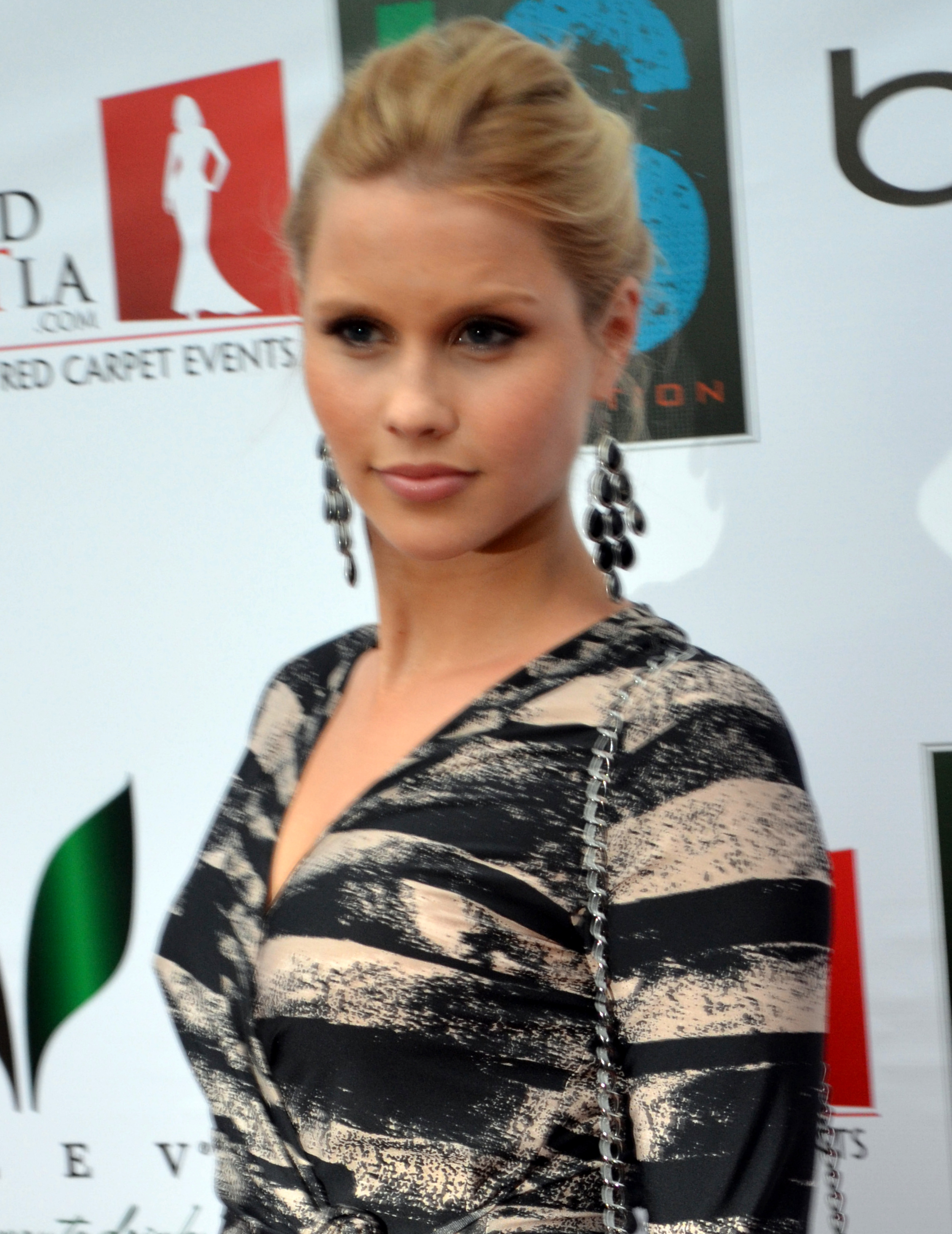 Claire Holt at the Ian Somerhalder Foundation's Influence Affair Red Carpet 2012.